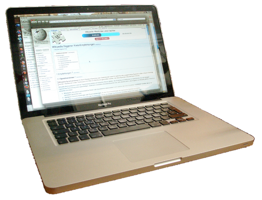 Unlbody MacBook Pro